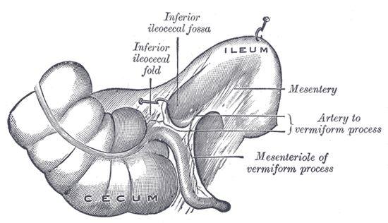 Inferior ileocecal fossa. The cecum and ascending colon have been drawn lateralward and downward, the ileum upward and backward, and the vermiform process downward. (Poirier and Charpy.)